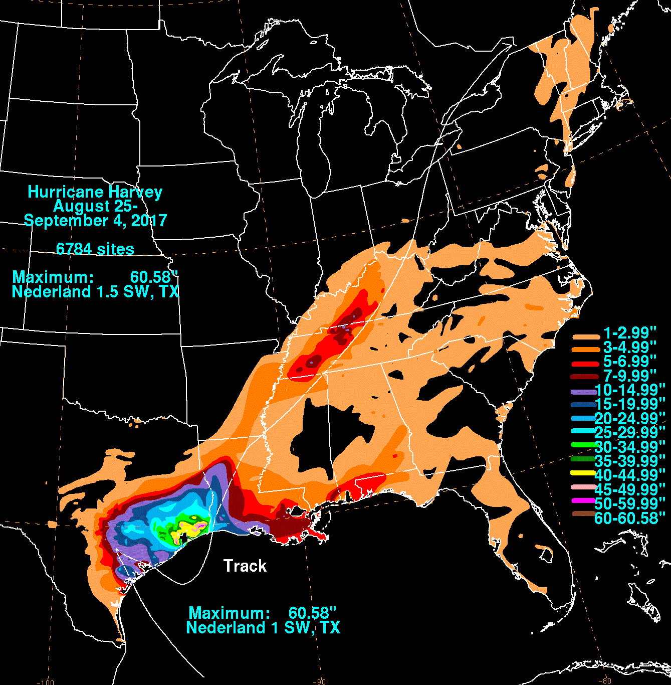 Storm total rainfall map of Hurricane Harvey, from August 2017 to September 2017.